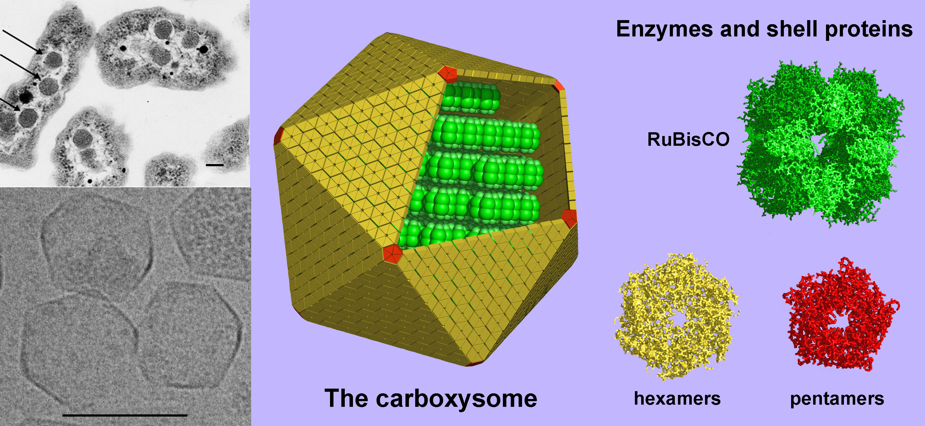 (Left, above) A thin-section electron micrograph of H. neapolitanus cells with carboxysomes inside. In one of the cells shown, arrows highlight the visible carboxysomes. (Left, below) Purified carboxysomes (material courtesy of S. Heinhorst and G. Cannon) as visualized by cryo-electron microscopy (courtesy of M. Yeager and K. Dryden). (right) Models for the structure of the carboxysome. Current data suggest that the shell is composed of several hundred hexameric protein building blocks and 12 pentameric building blocks. The three-dimensional atomic structures of the shell proteins have been determined by X-ray crystallography. RuBisCO, the main interior enzyme is shown packed inside in a regular arrangement for simplicity, though the actual organization of the enzymes is not understood yet. The other key enzyme, carbonic anhydrase, which is present in lesser amounts, is not illustrated. Scale bars are 100 nm. (image by T. Yeates).